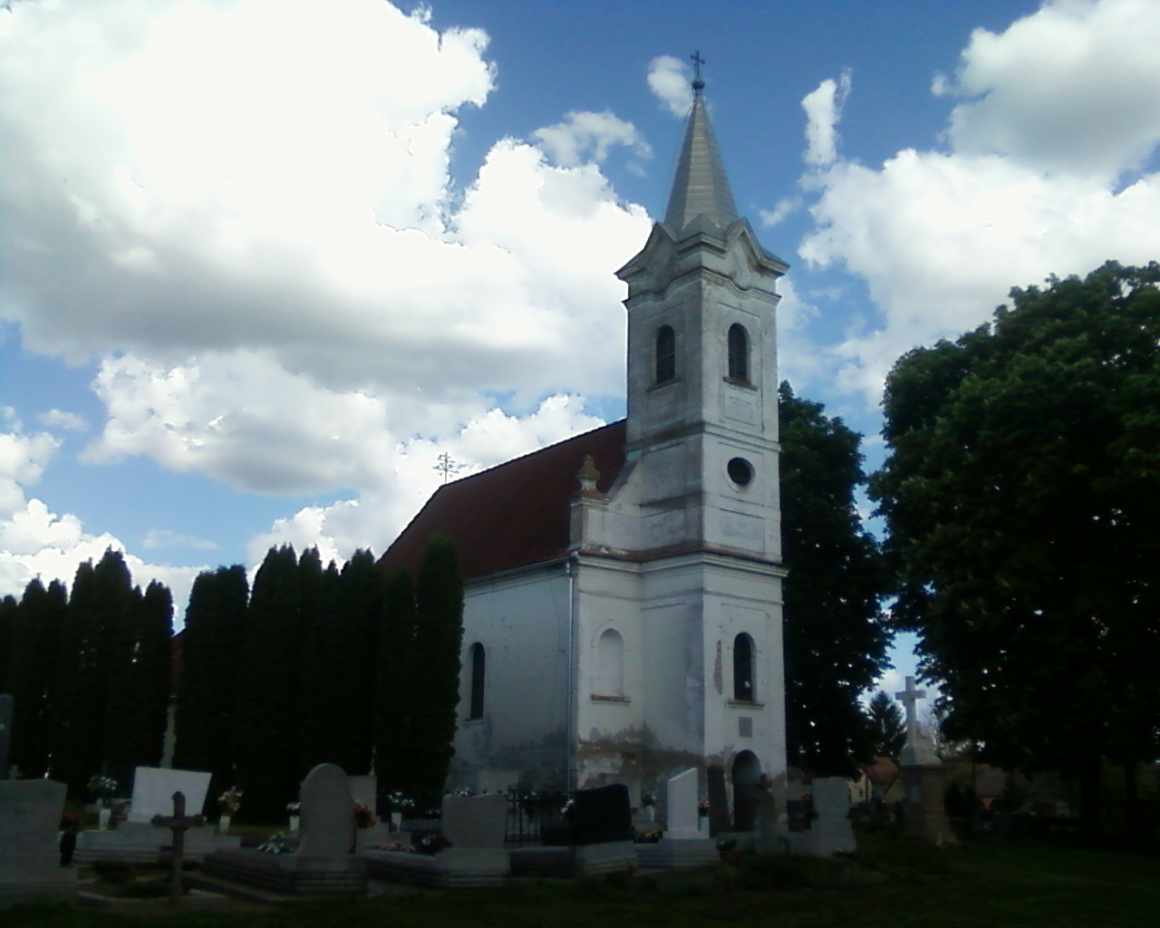 Roman catholic church in Lapáncsa, Hungary